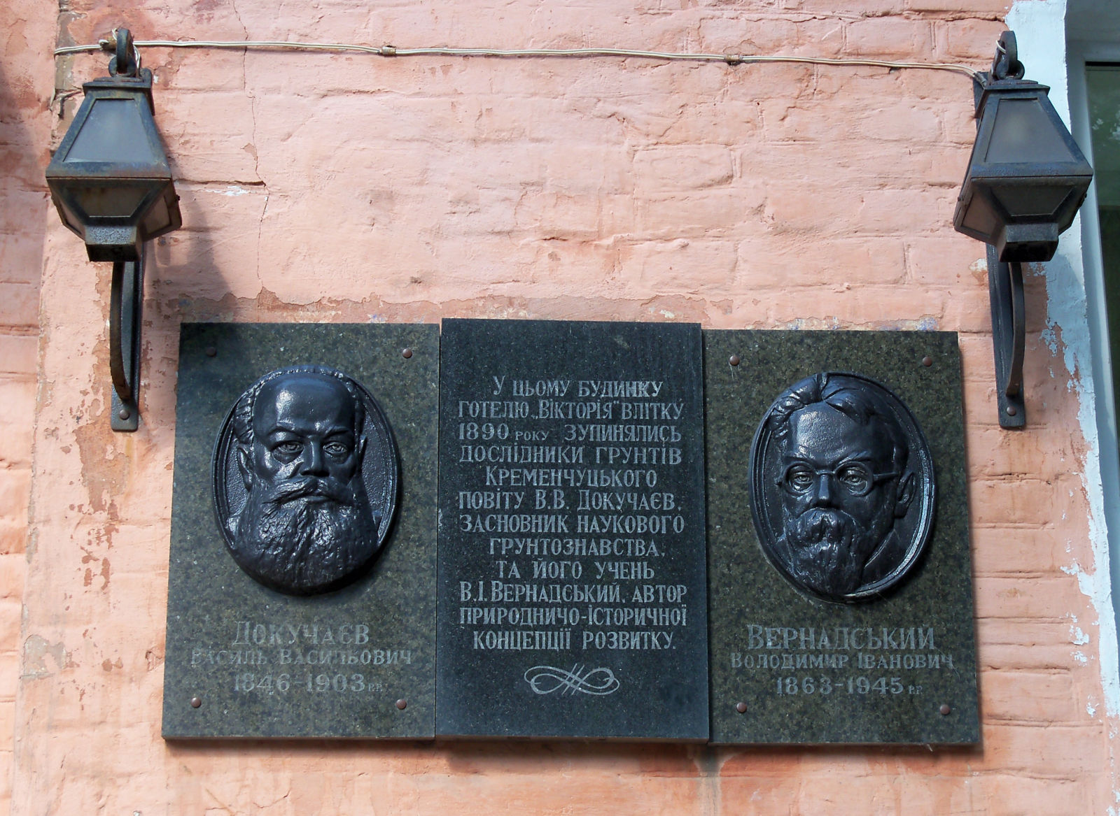 V. V. Dokuchaev and V. I. Vernadskyy commemorative plaque in Kremenchuk